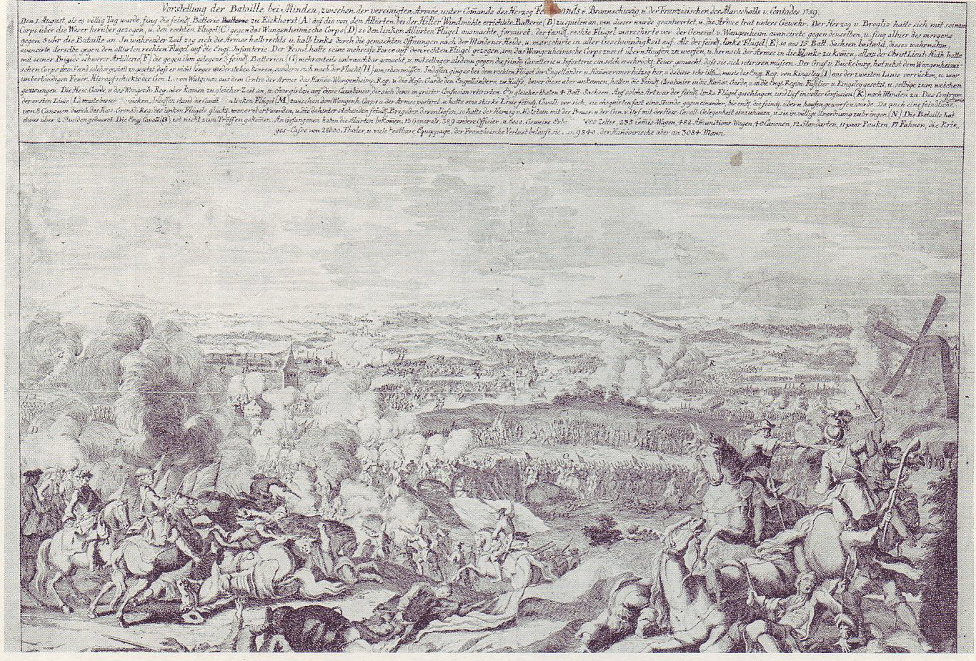 Engraving of the Battle of Minden with a description.